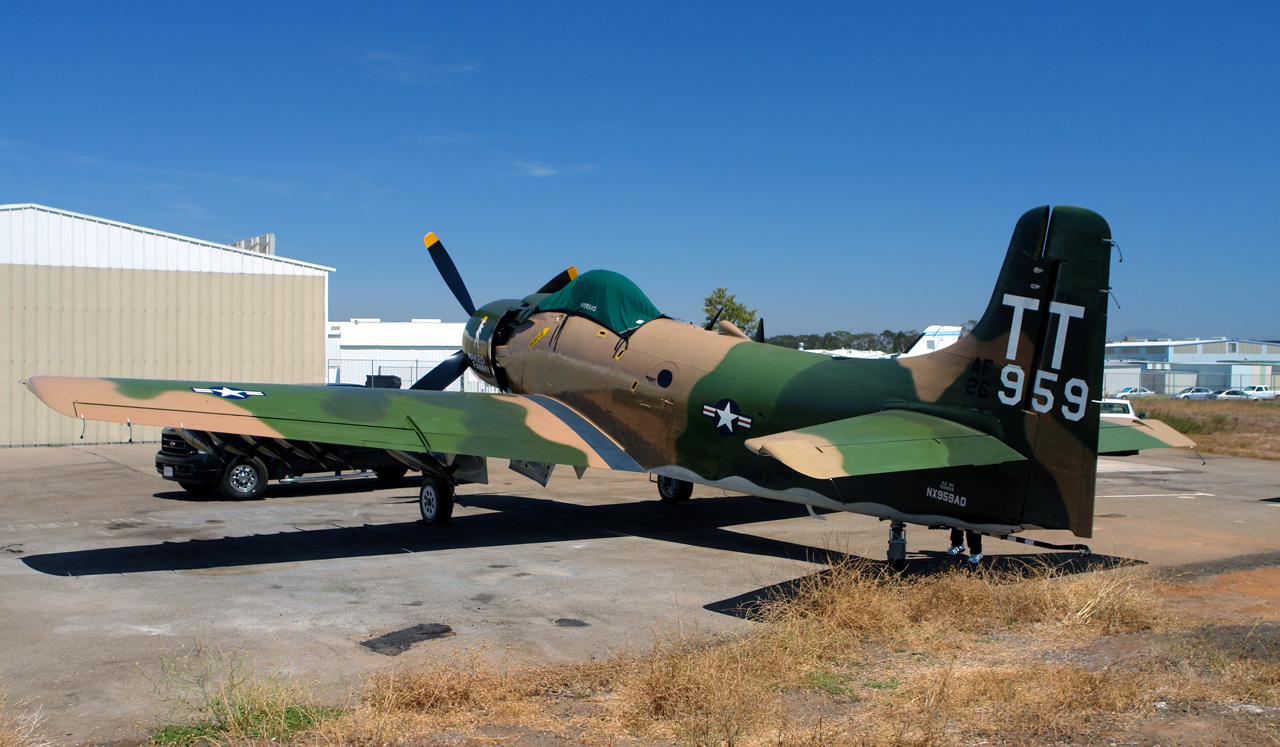 Douglas Skyraider "Naked Fanny" - Most evolved piston single engine military aircraft made by U.S.